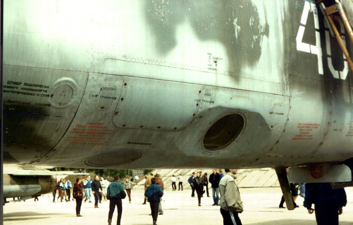 Cameras of MiG-25RB at Lipetsk AFB, 1997